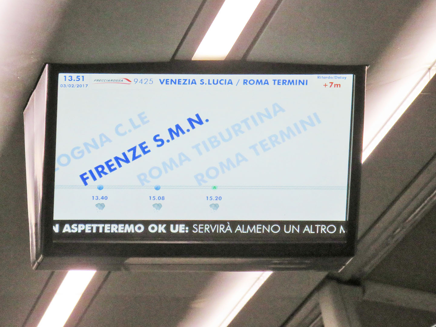 ETR 500 Frecciarossa's LCD display